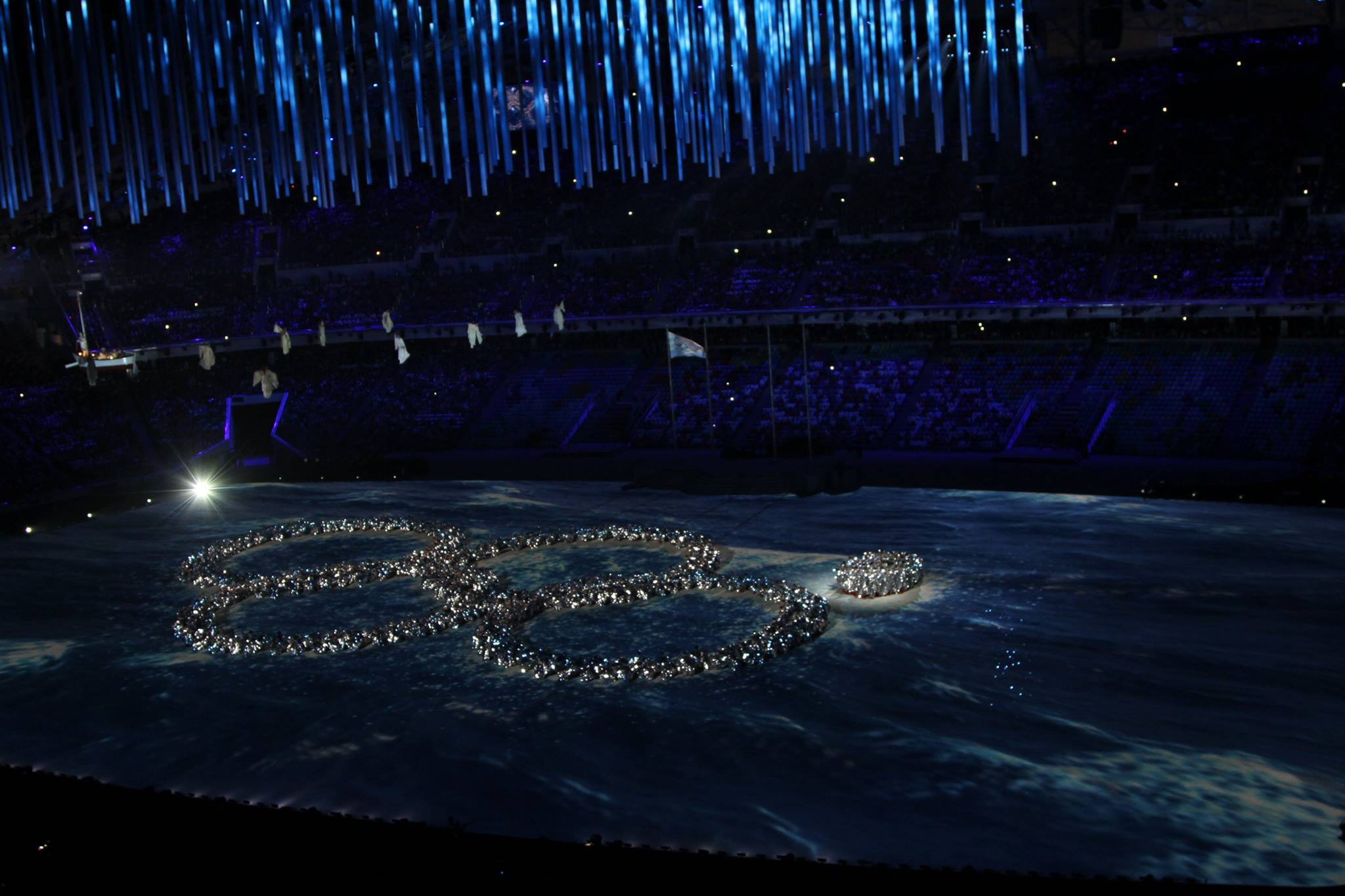 2014 Winter Olympics closing ceremony One ring (top right) still closed, as it was during the Opening Ceremony